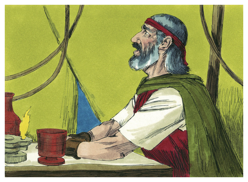 Biblical illustration of Book of Numbers Chapter 14